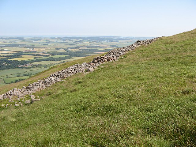 Walls, Yeavering Bell Yeavering Bell was a substantial hill fort with a high masonry wall enclosing over 5Ha of ground. A lot of the wall is visible still, this is the north side near where the waymarked path arrives from Old Yeavering.